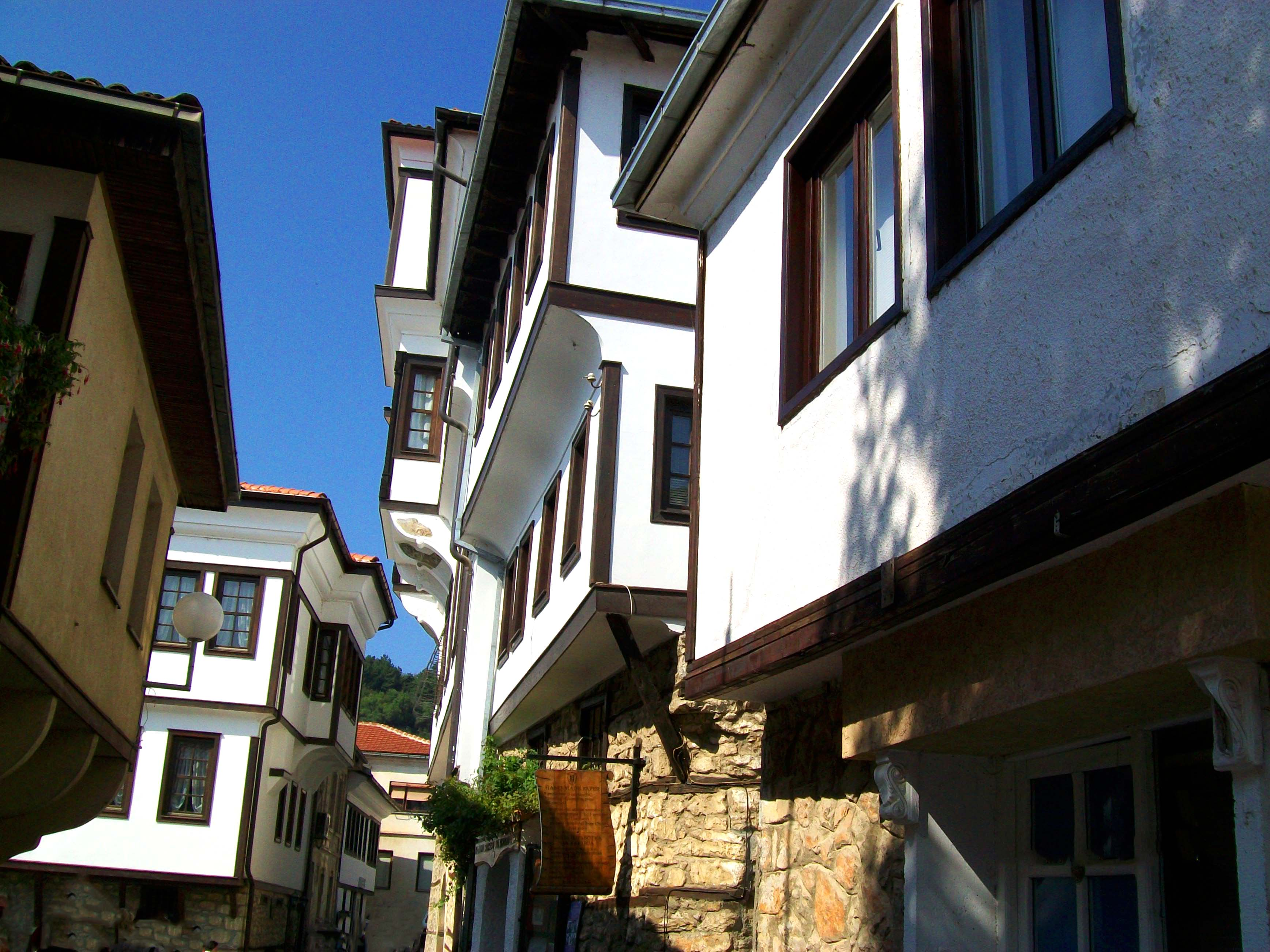 Architecture of Ohrid